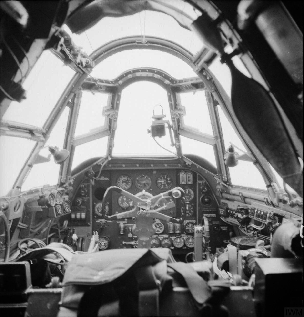 IWM caption : Interior view of the instrument panel and flying controls in the cockpit of a Bristol Beaufighter Mark IF of No. 252 Squadron RAF at Chivenor, Devon.